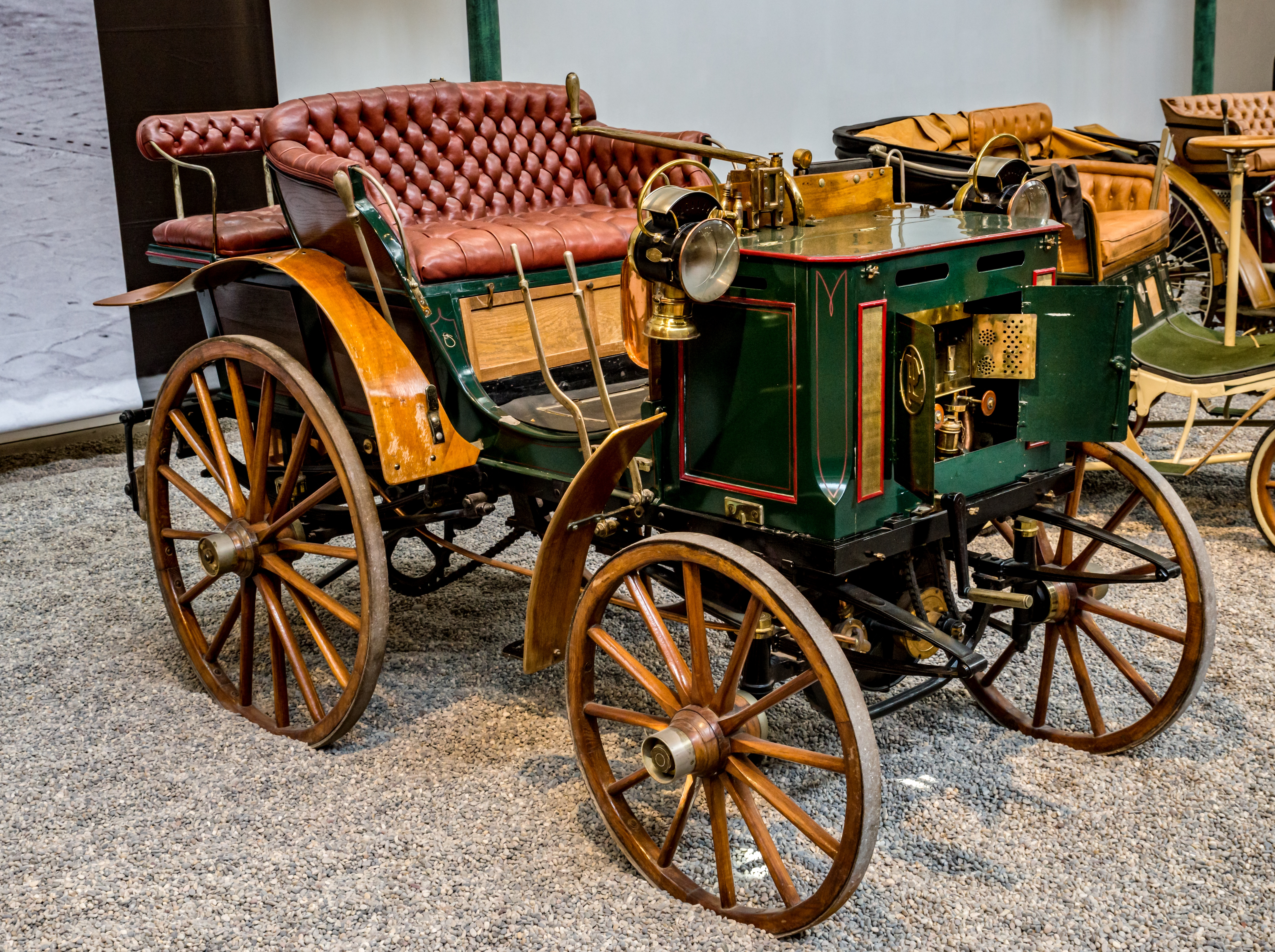 pictures from the Cité de l’Automobile – Musée National – Collection Schlump in Mulhouse, France ptictures from the 10. may 2018 Panhard & Levassor automobiles